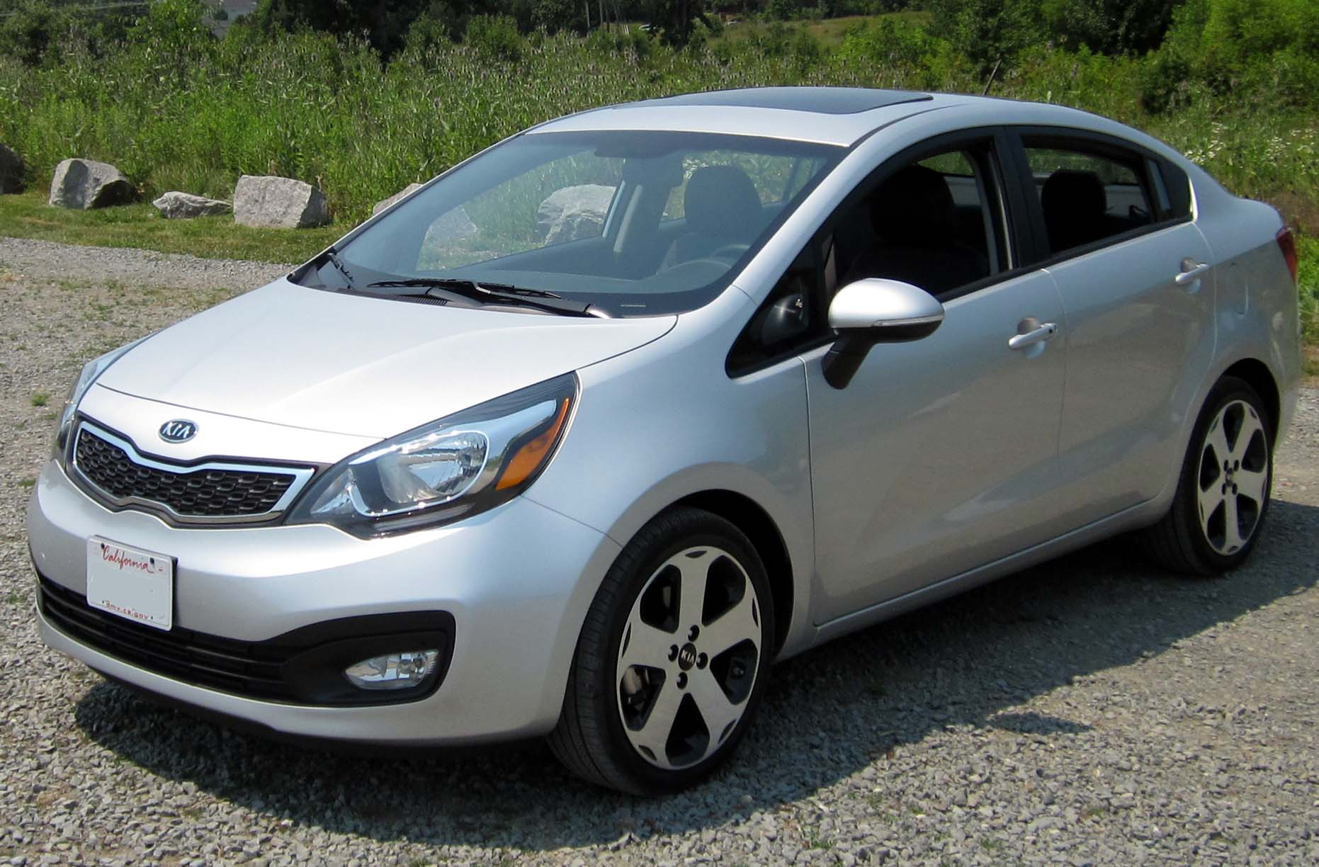 2012 Kia Rio photographed in Chantilly, Virginia, USA.